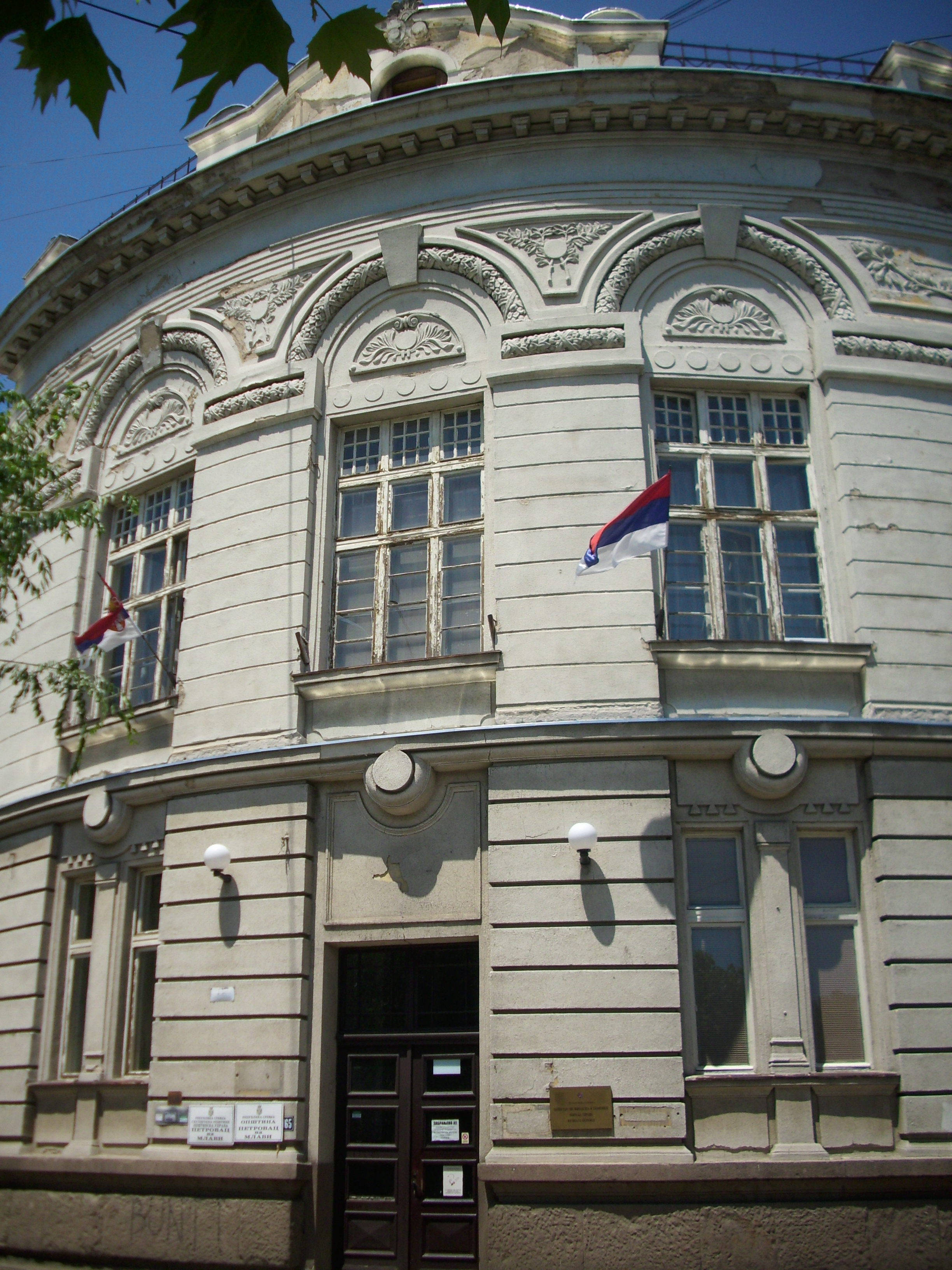 City council of Petrovac na Mlavi